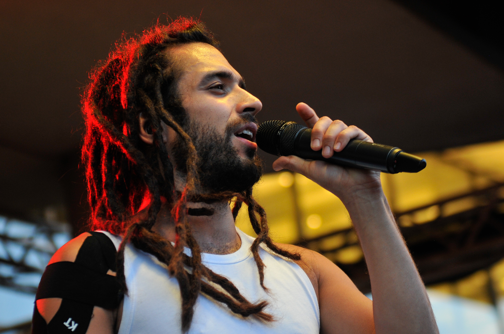 Music photography: polish reggae vocalist Mesajah (Manuel Rengifo Diaz) during concert in Bielsko-Biala, Poland, 2017